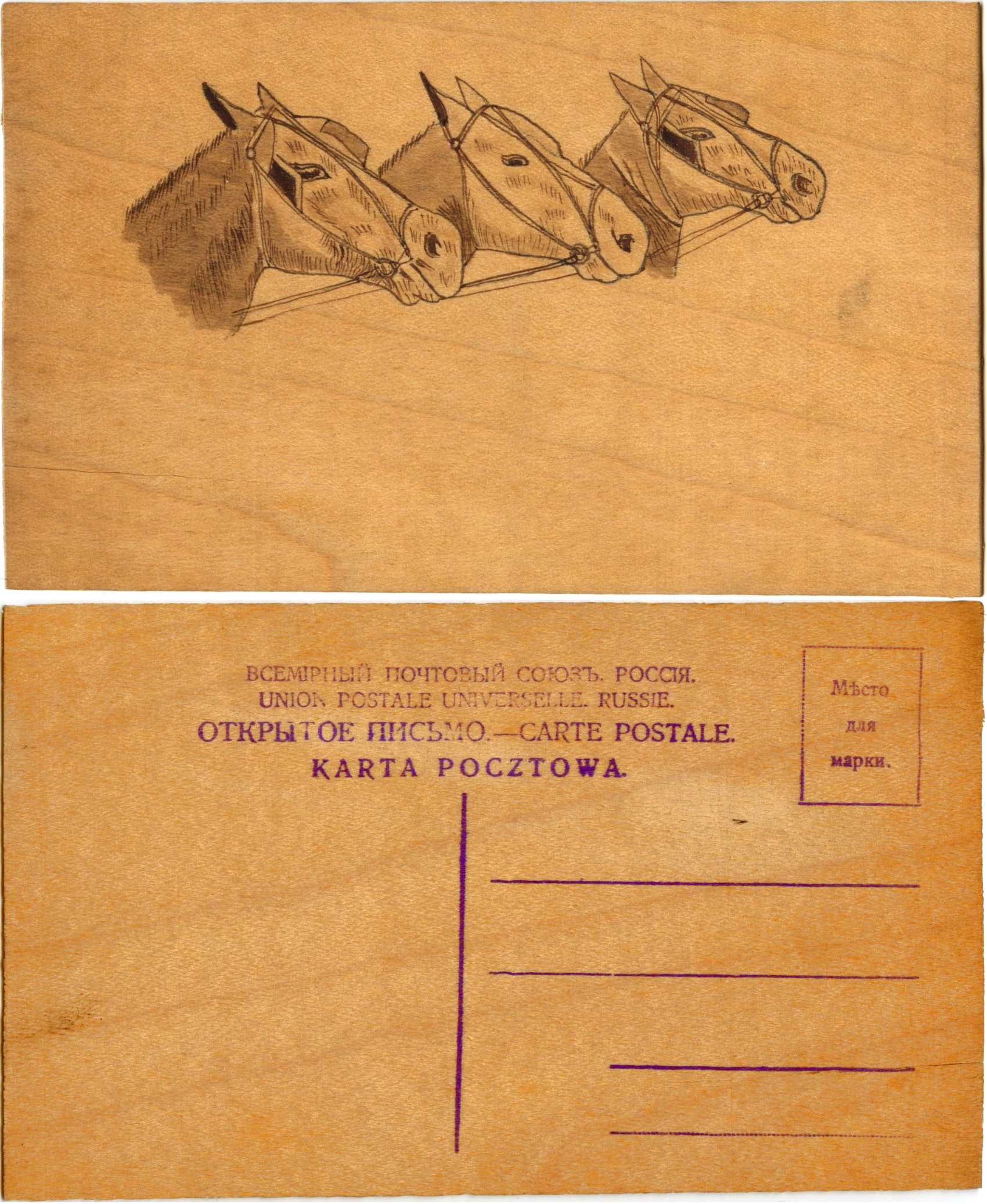 Two sides of a wooden postcard of the Russian Empire. The words "Universal Postal Union. Russia" (in Russian and French) and "Post card" (in Russian, French, and Polish) are printed on the back side. The front side contains a drawing of three horse heads by an unknown artist.